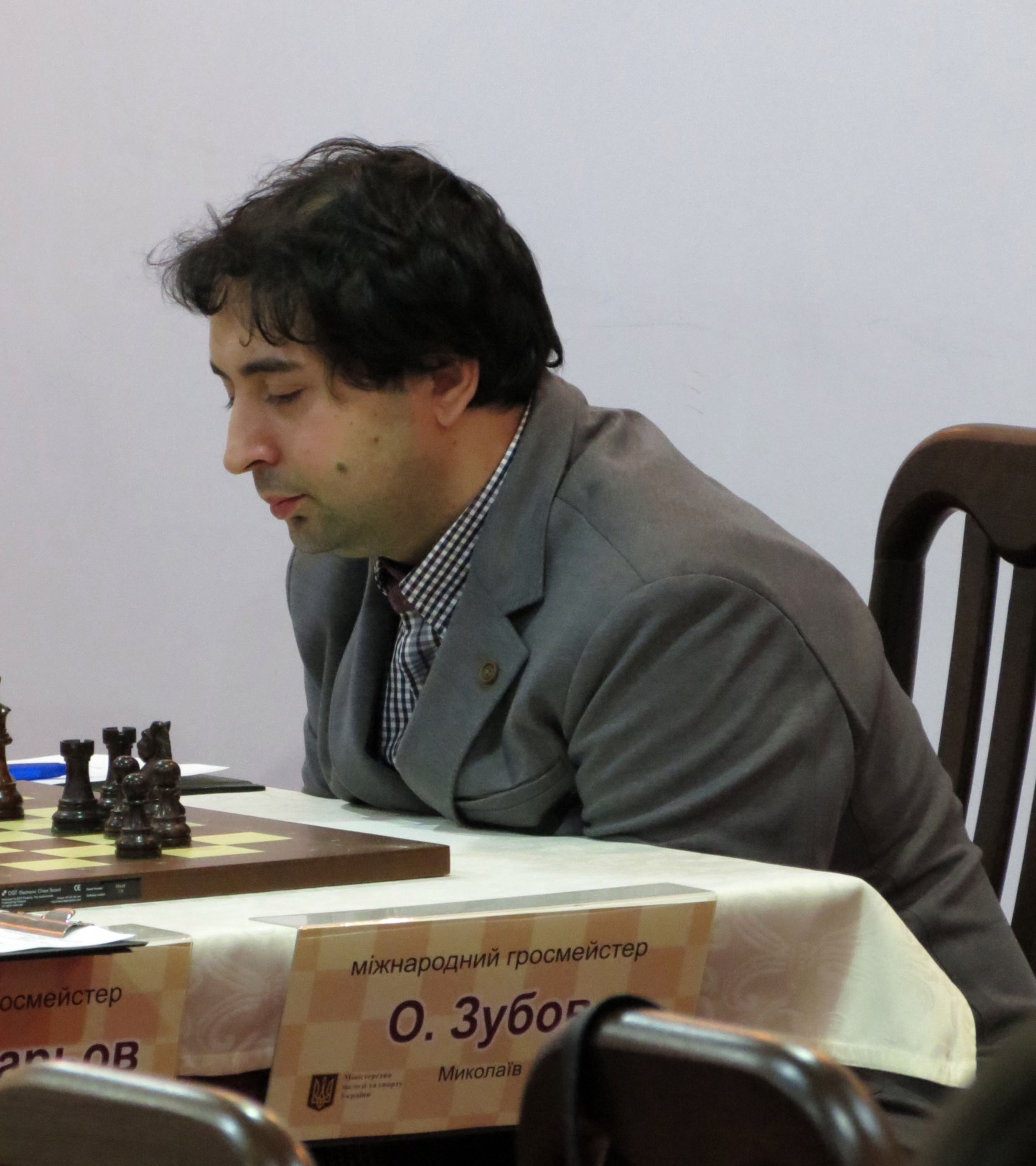 Grandmaster Alexander Zubov from Ukraine